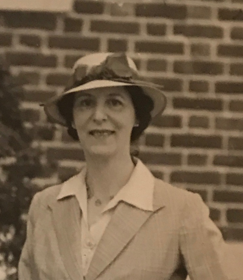 Photo of early aviator, Clara Adams, taken circa 1938 by her friend, sculptor Frederic Allen Williams, in New York.